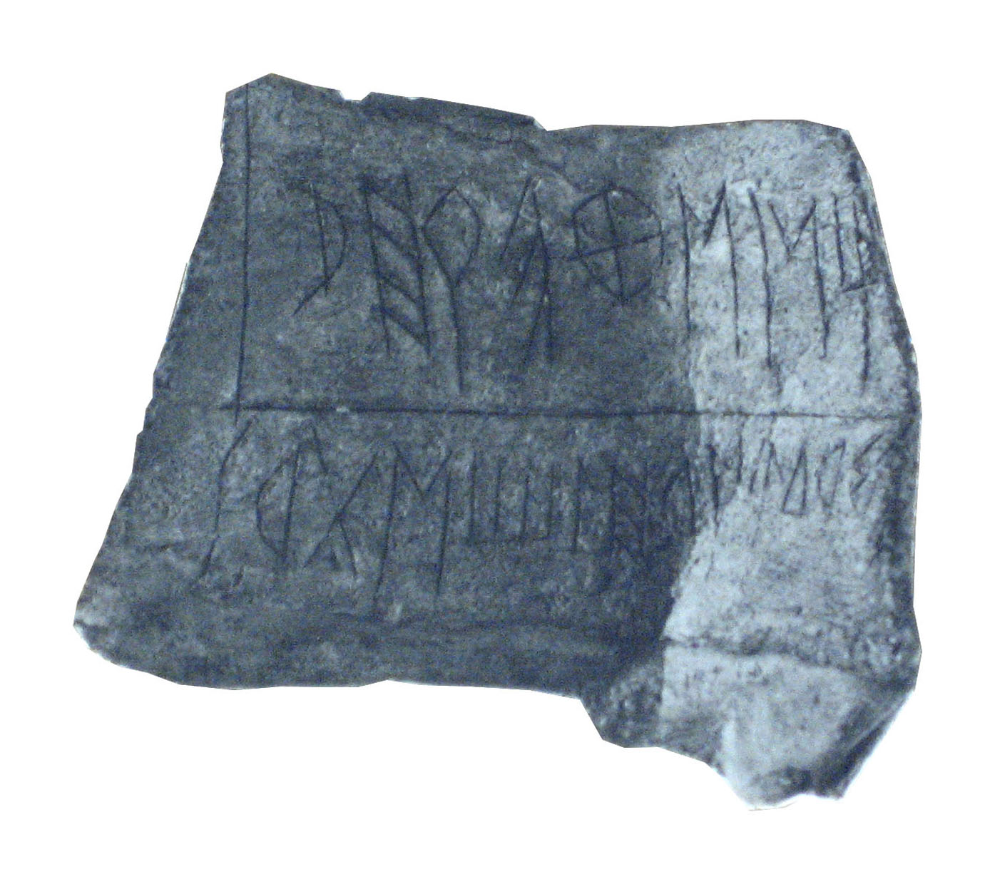 Lead panel with an inscription found in the iberian village on the Penya del Moro mountain in Sant Just Desvern (Catalonia, Spain).